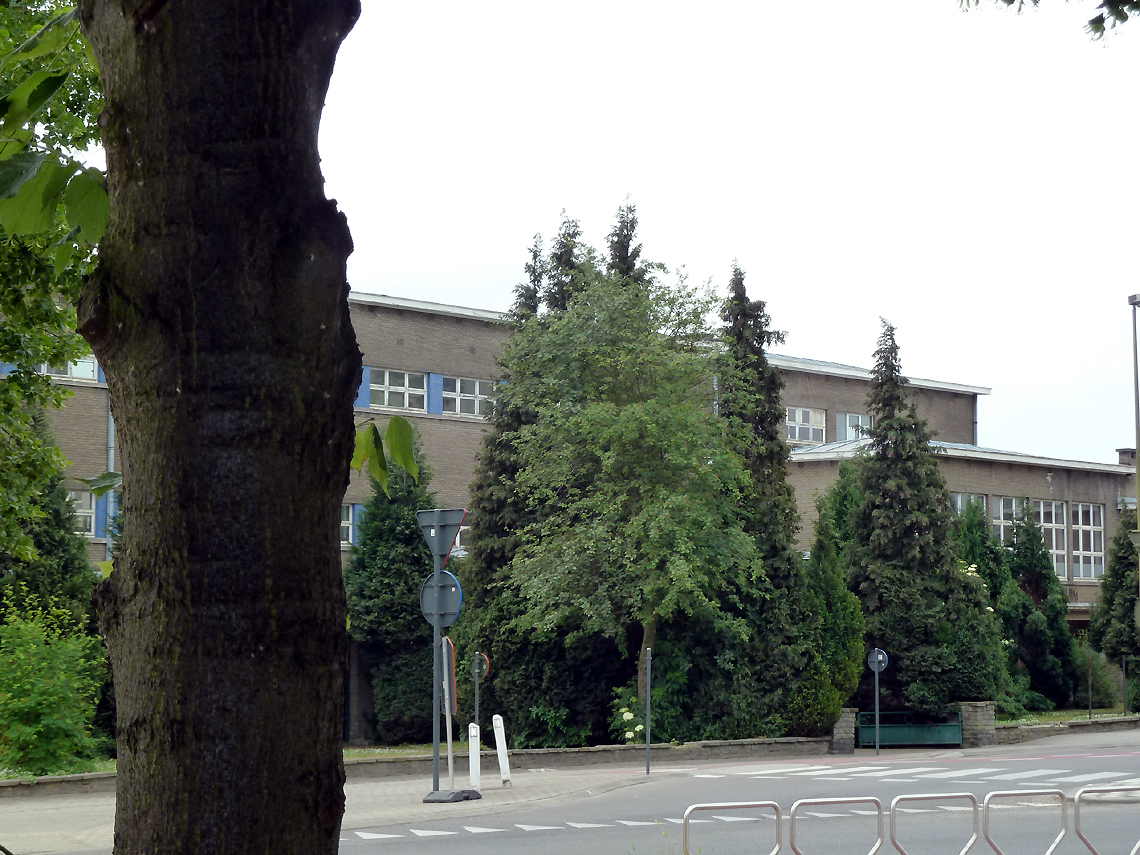 Lyceum Tienen